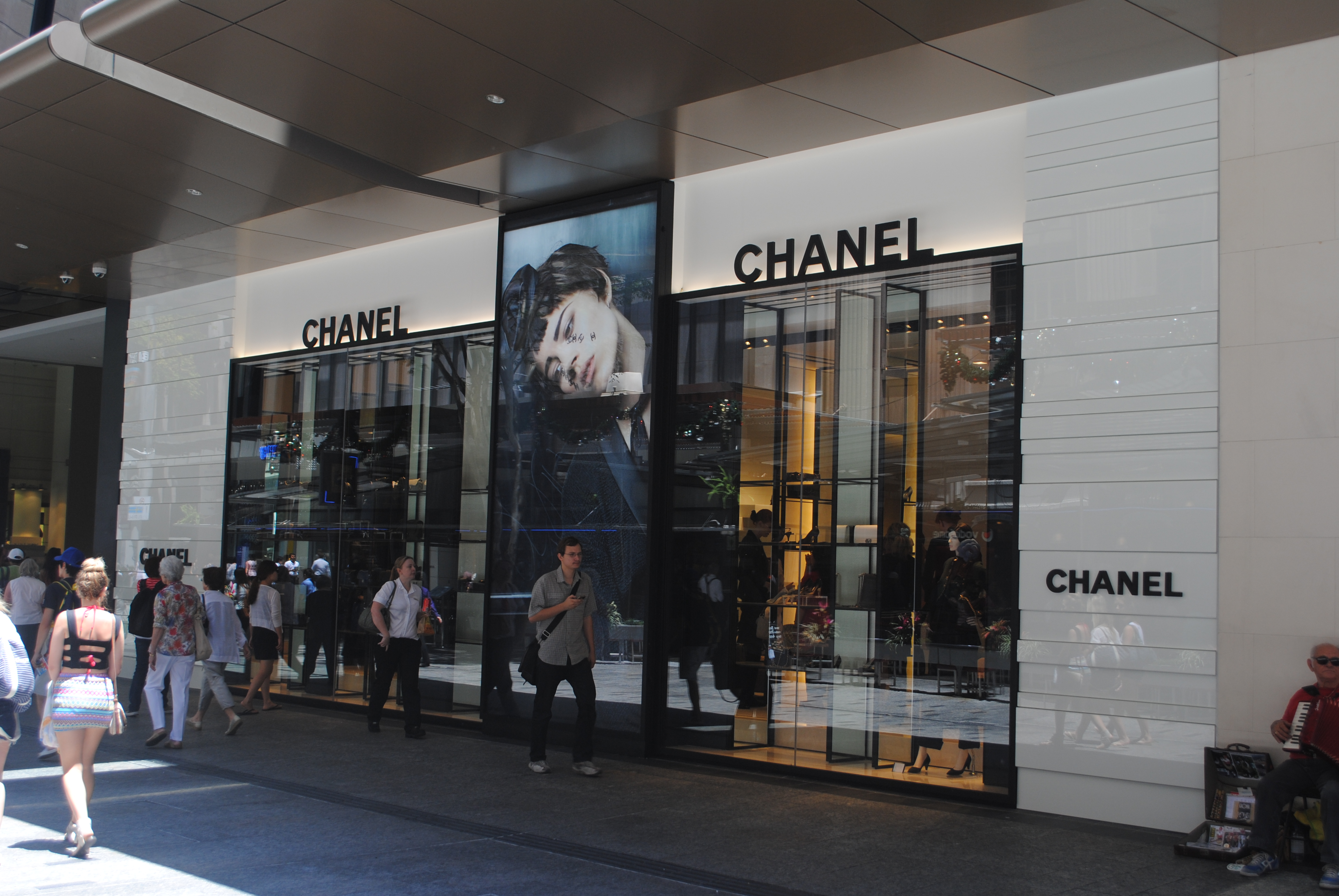 The Chanel store at Queens Plaza Brisbane